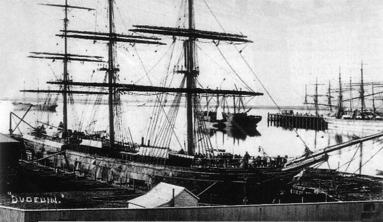 Photograph of the "Dunedin", loading at Port Chalmers in 1882. The 1320 ton 73 metre Dunedin was built by Robert Duncan and Co at Port Glasgow in 1874 at a cost of ₤23,750. In 1881 she was refitted with a Bell Coleman refrigeration machine with which, in 1882 she took the first frozen load of meat from New Zealand to the United Kingdom. The photograph is of her loading at Port Chalmers in 1882. Although experimental voyages with refrigerated shipping had been made the previous year by Australian and American vessels, the Dunedin's trip was the first fully successful refrigerated shipment. The Dunedin continued in the frozen meat trade until she was lost without trace in 1890, en route from New Zealand to the UK - it is presumed she hit an iceberg off Cape Horn.